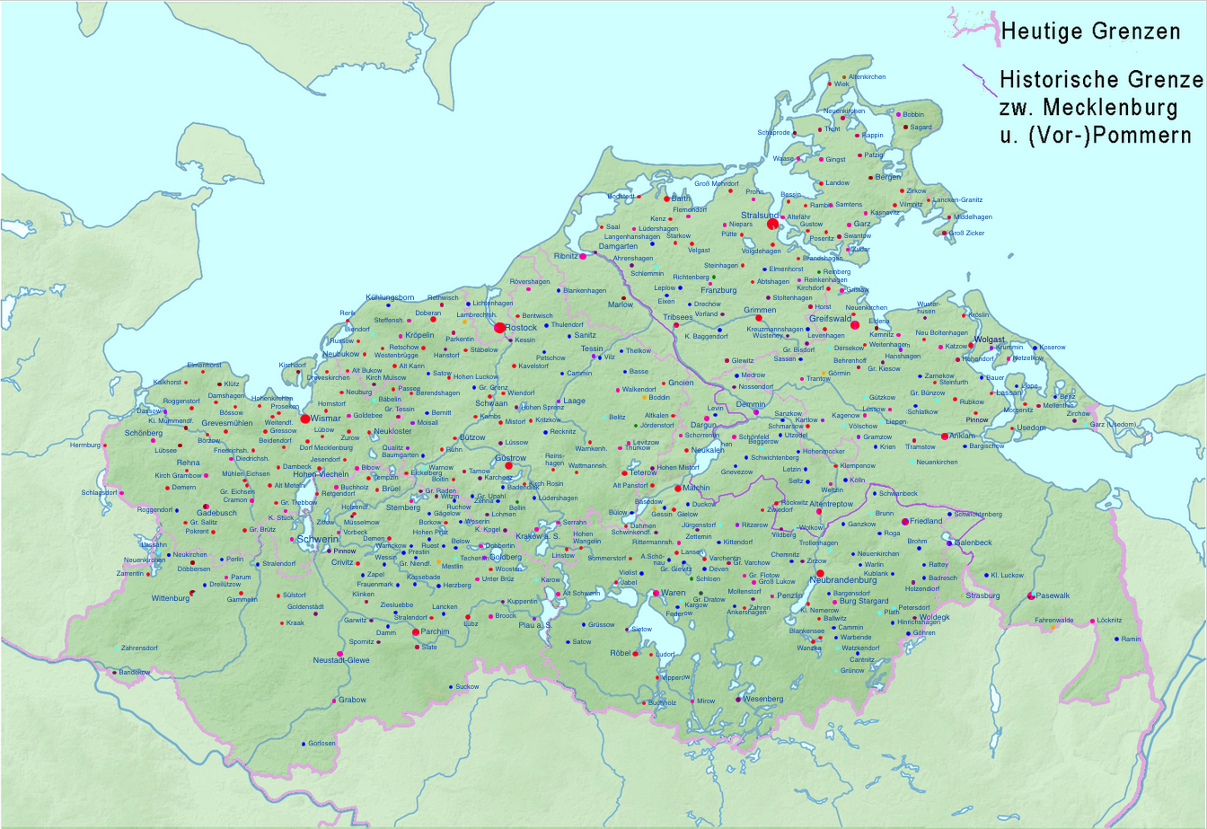 Detailed distribution of Brick Gothic in Mecklenburg-Vorpommern